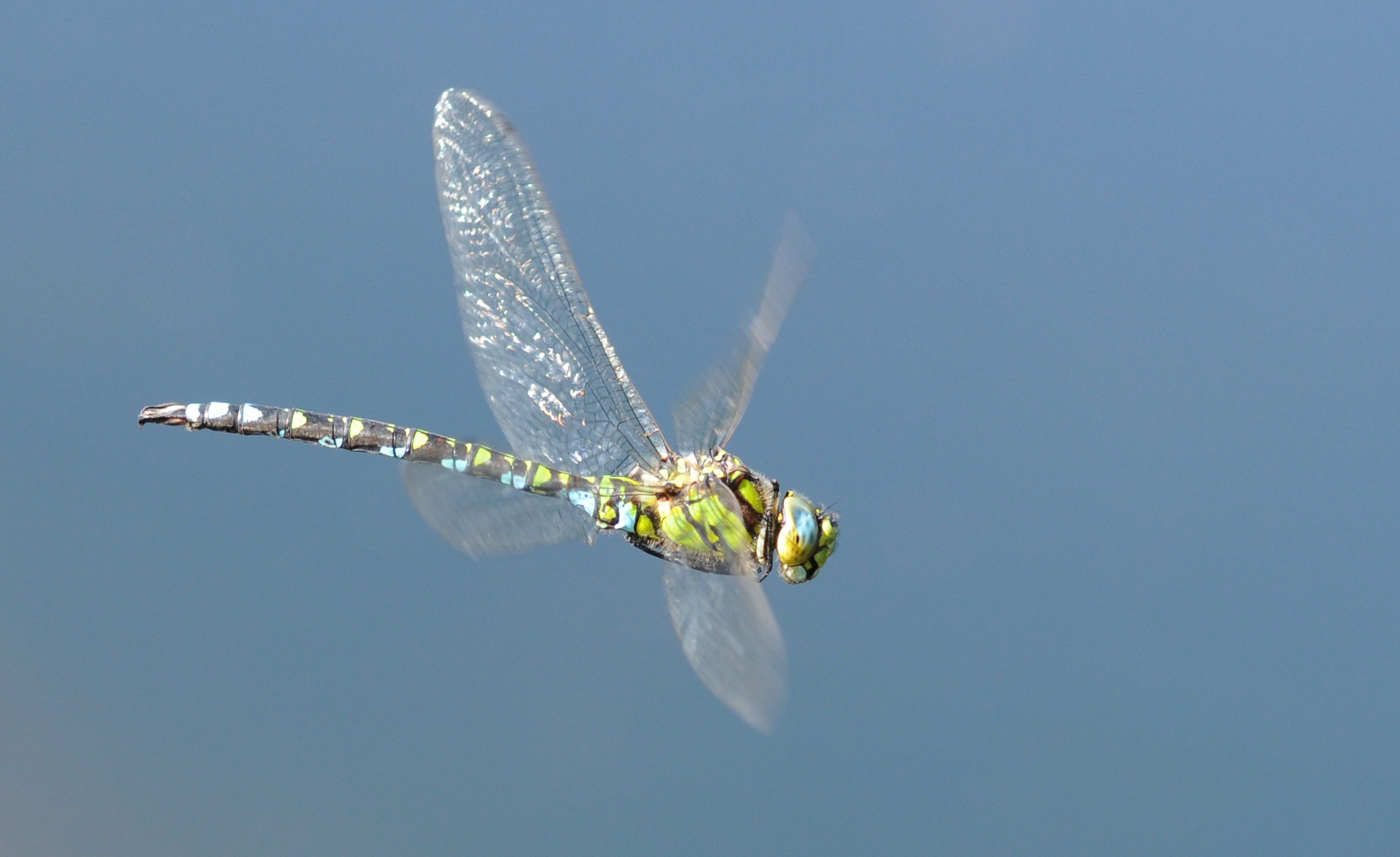 Southern Hawker